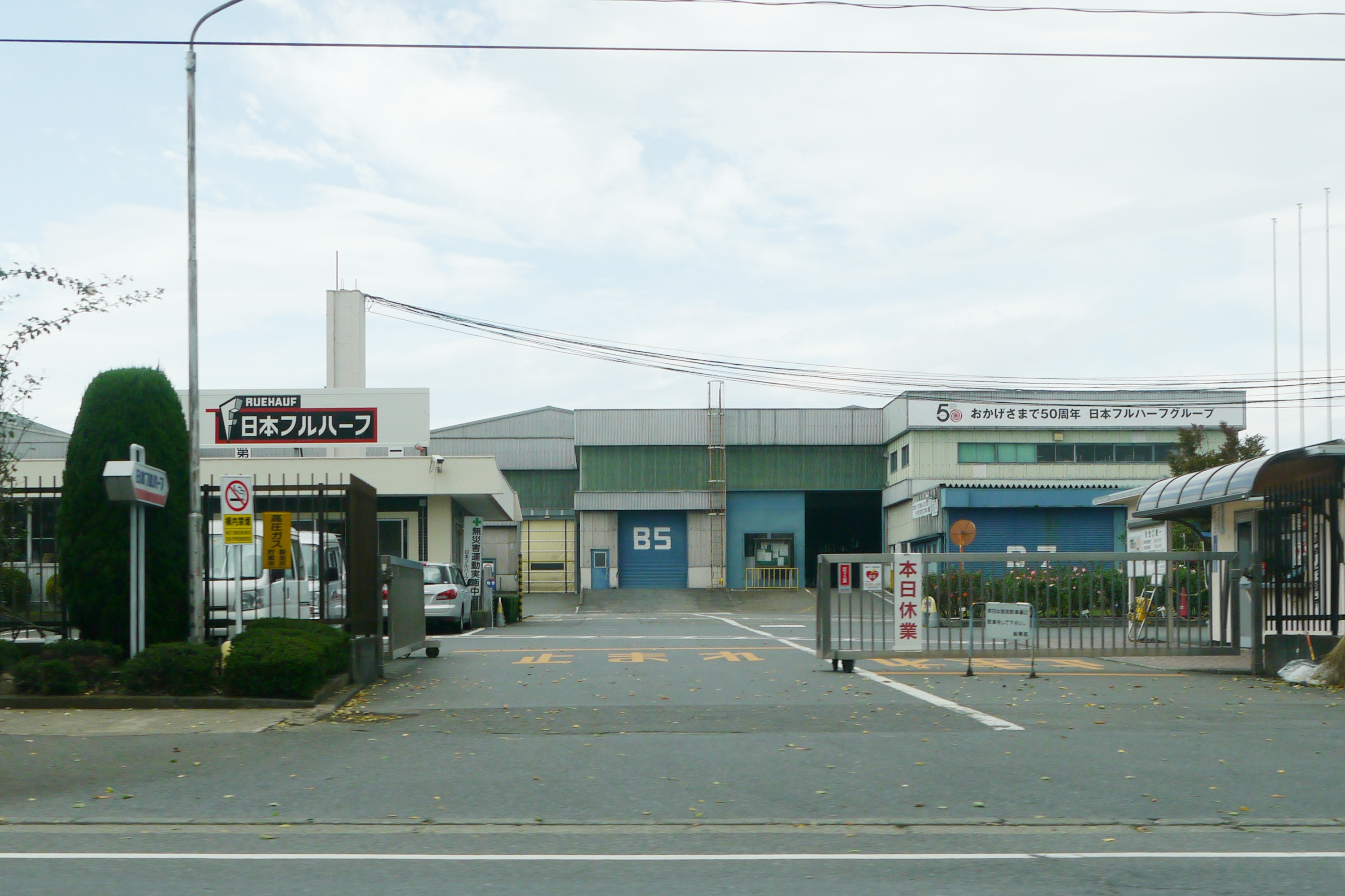 NIPPON FRUEHAUF COMPANY, LTD. Head Office